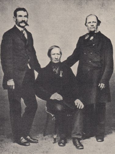 Franz Hruschka, Johann Dzierzon and Andre Schmidt before 1888 Photographs of Franz Hruschka (1819-1888) taken prior to 1888